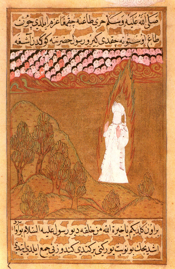 The Islamic prophet Muhammad (figure without face) on Mount Hira. Ottoman miniature painting from the Siyer-i Nebi, kept at the Topkapı Sarayı Müzesi, Istanbul (Hazine 1222, folio 158b)